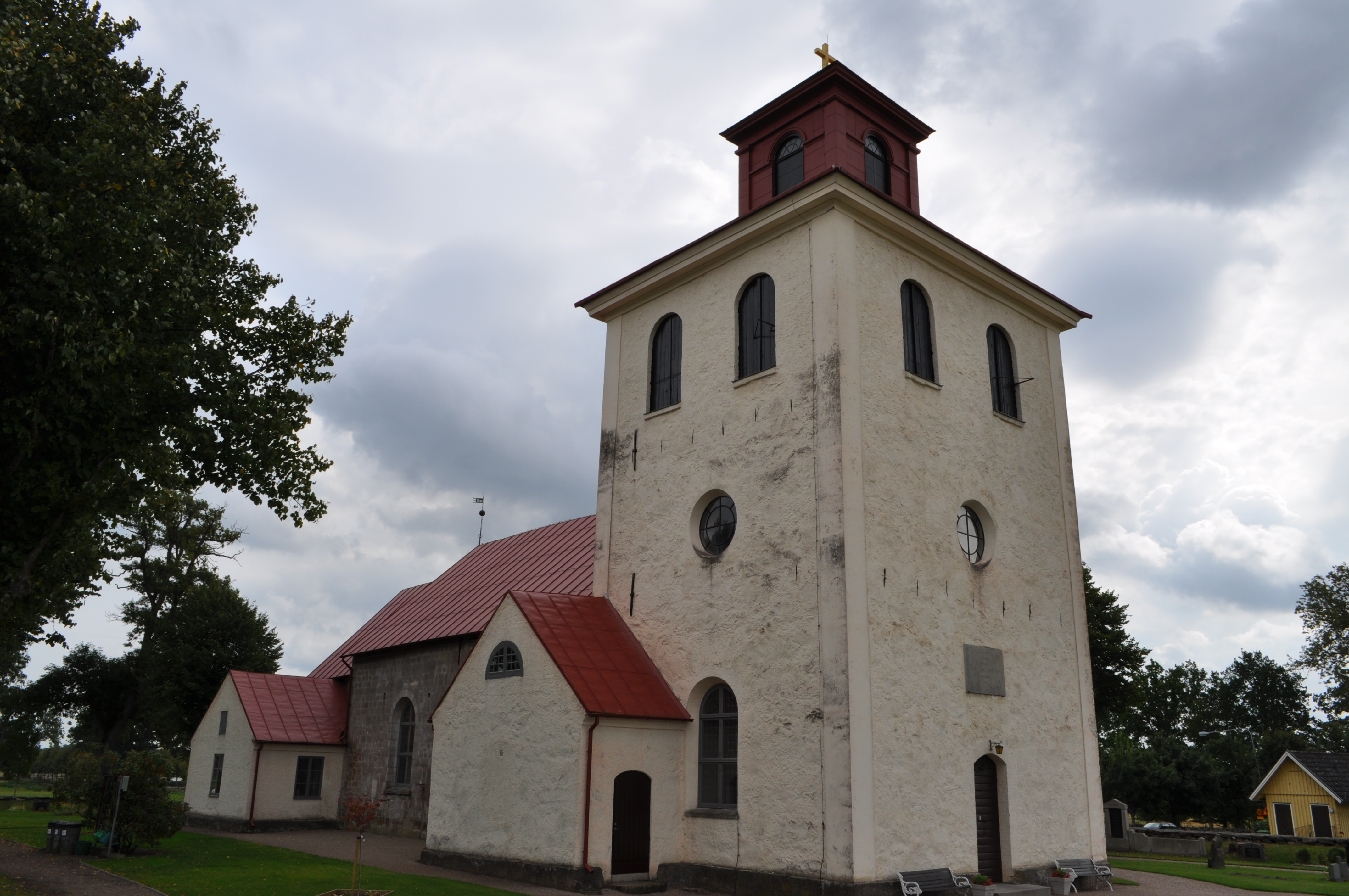 Norra strö church - kyrka